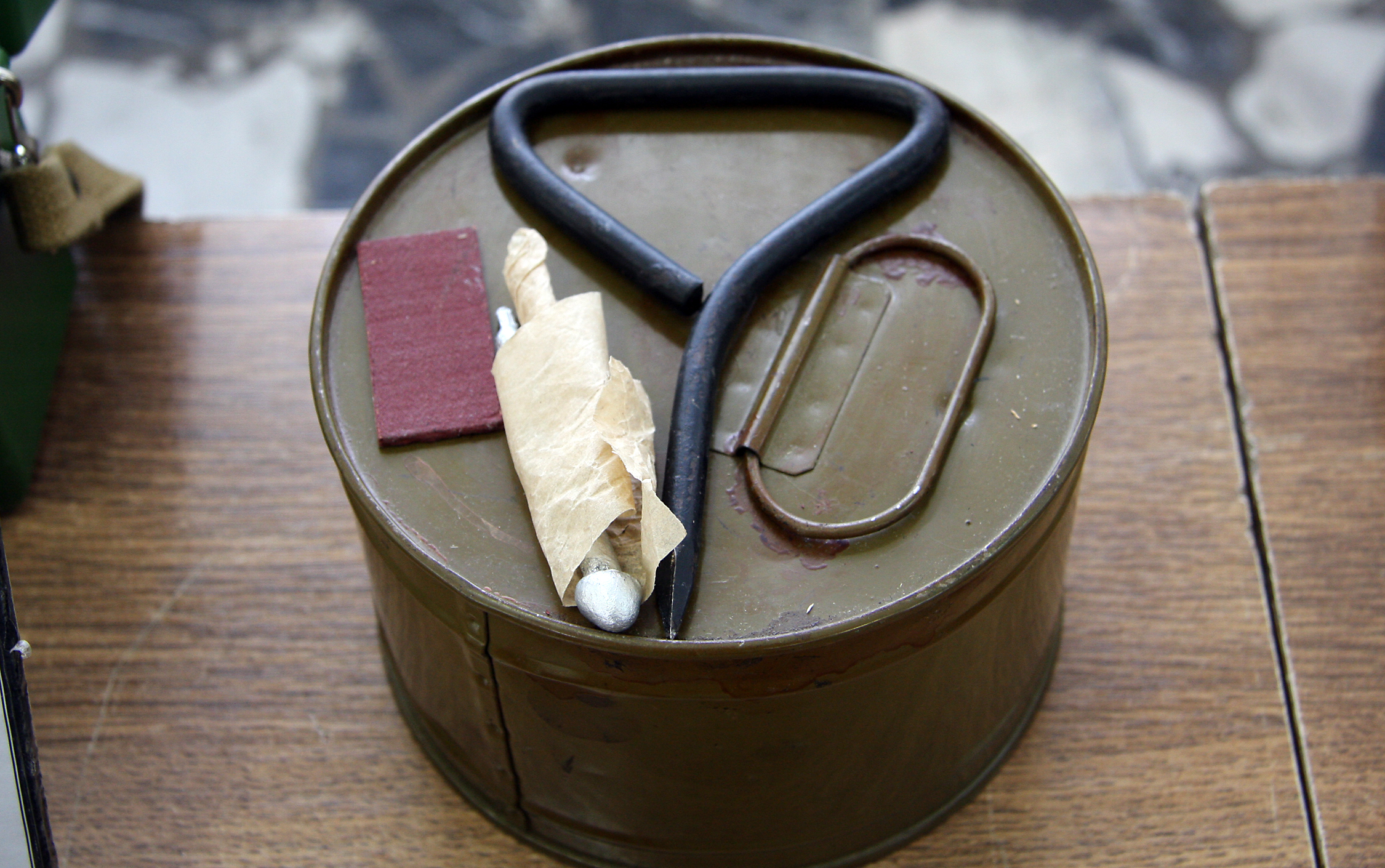 DM-11